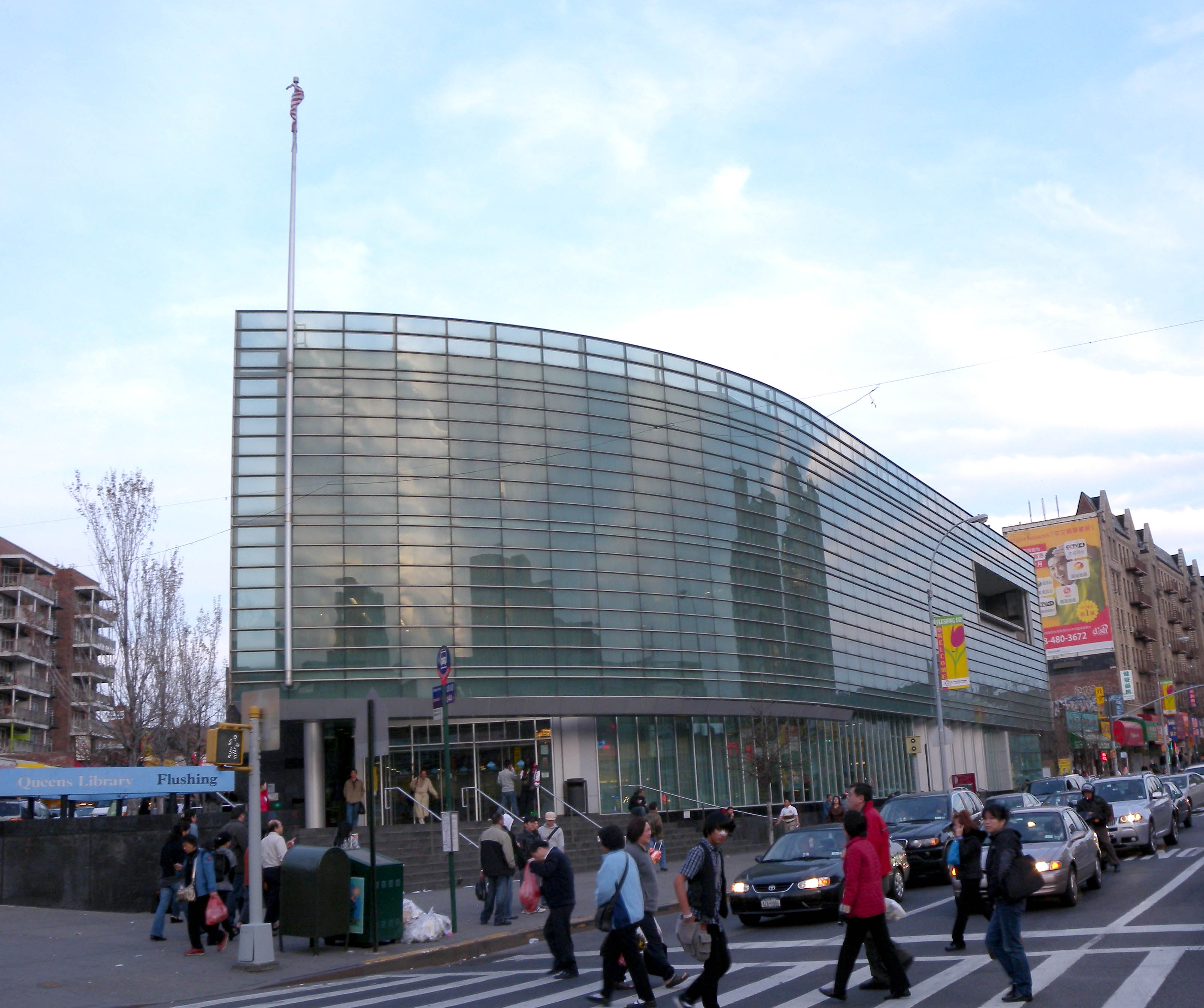 Looking southeast at new Flushing Public Library branch at dusk.